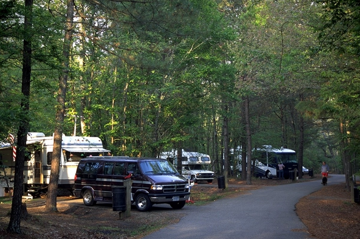 RV area at Chicot State Park in Evangeline Parish.